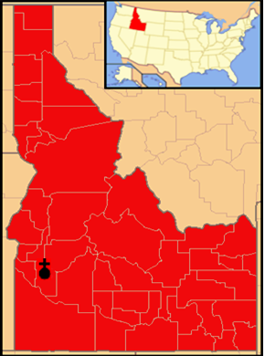 The Catholic Diocese of Boise encompasses the entire state of Idaho, USA.